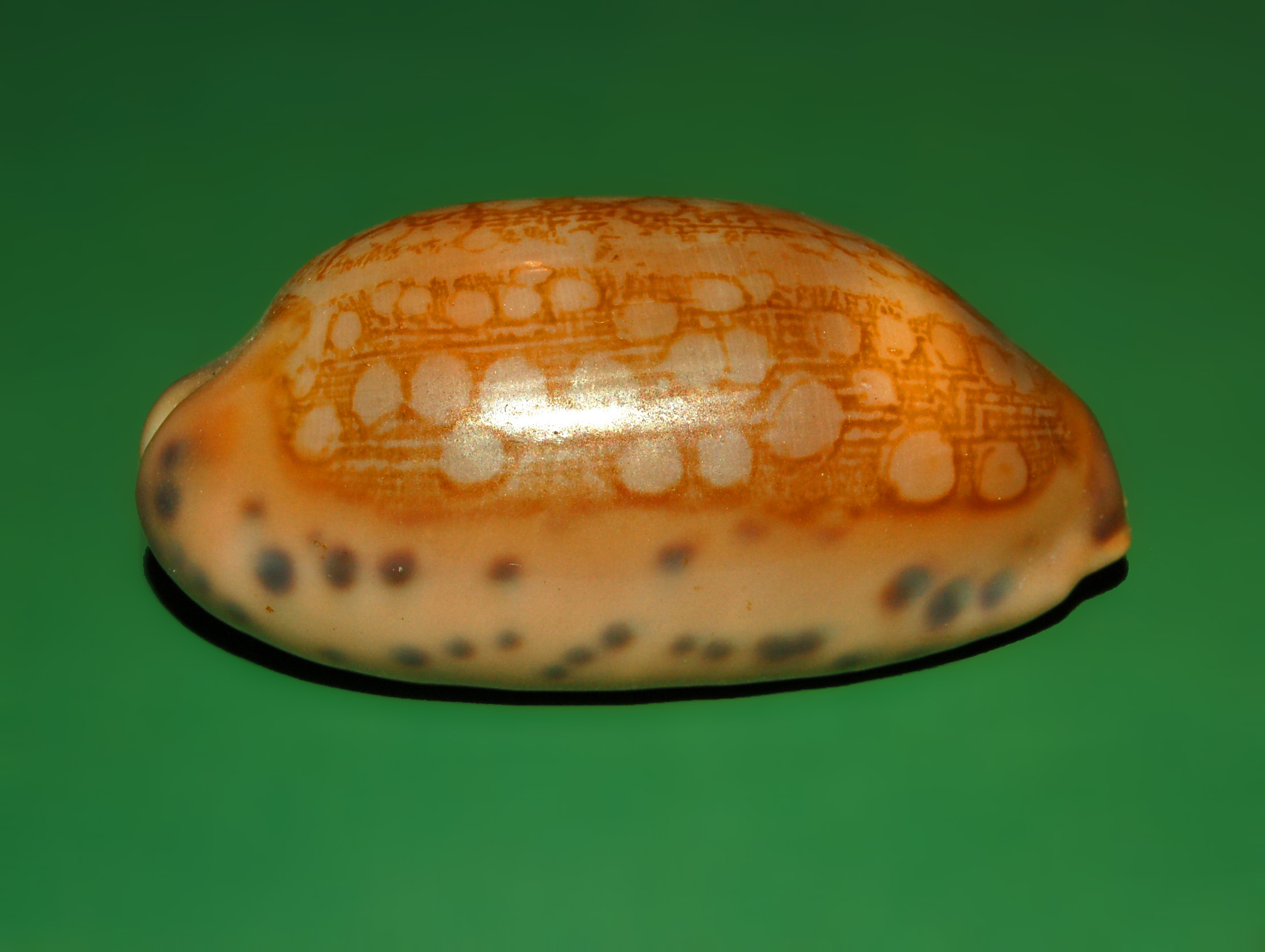 Mauritia scurra - Philippines